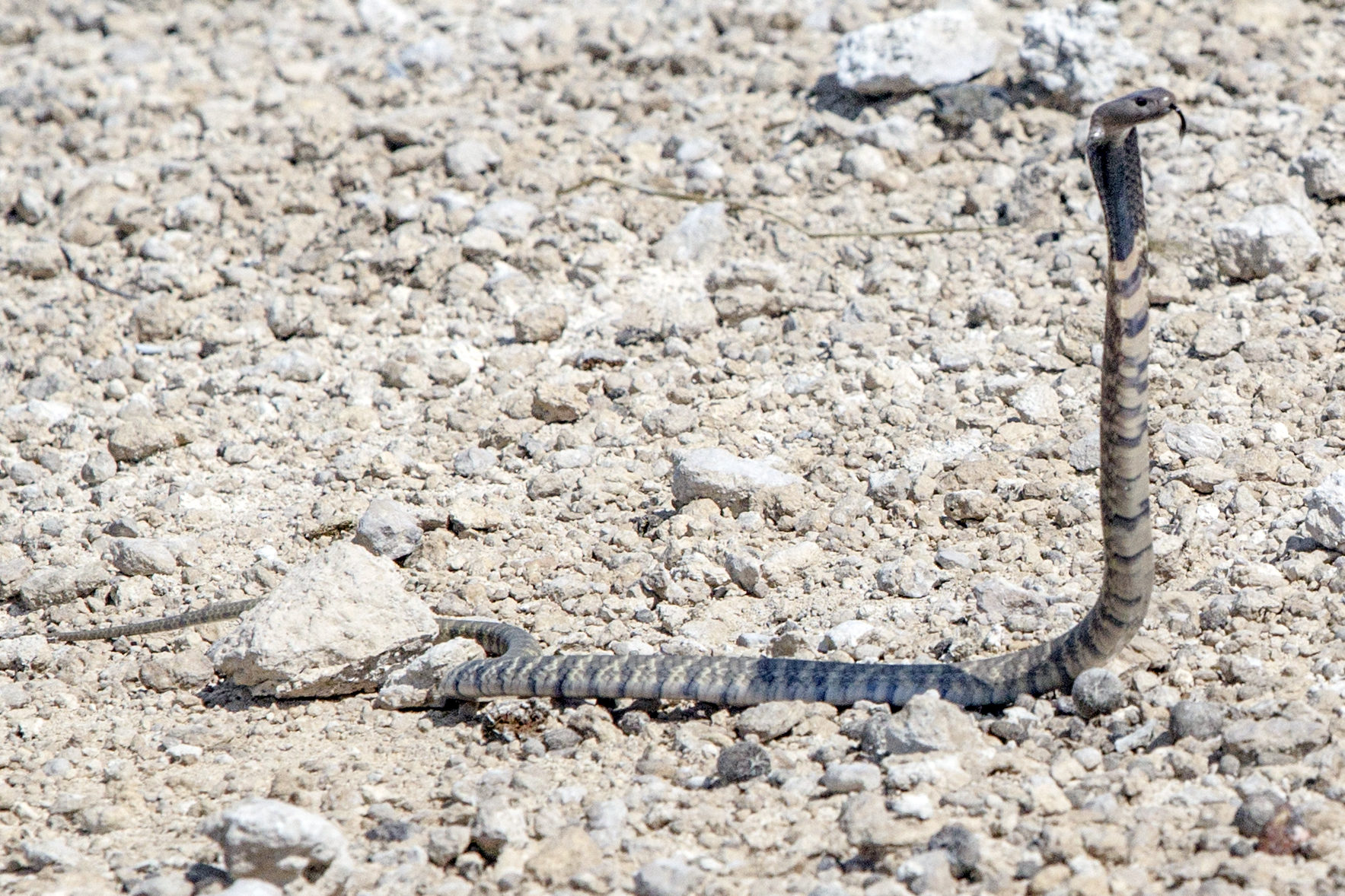 Zebra snake / zebra spitting cobra